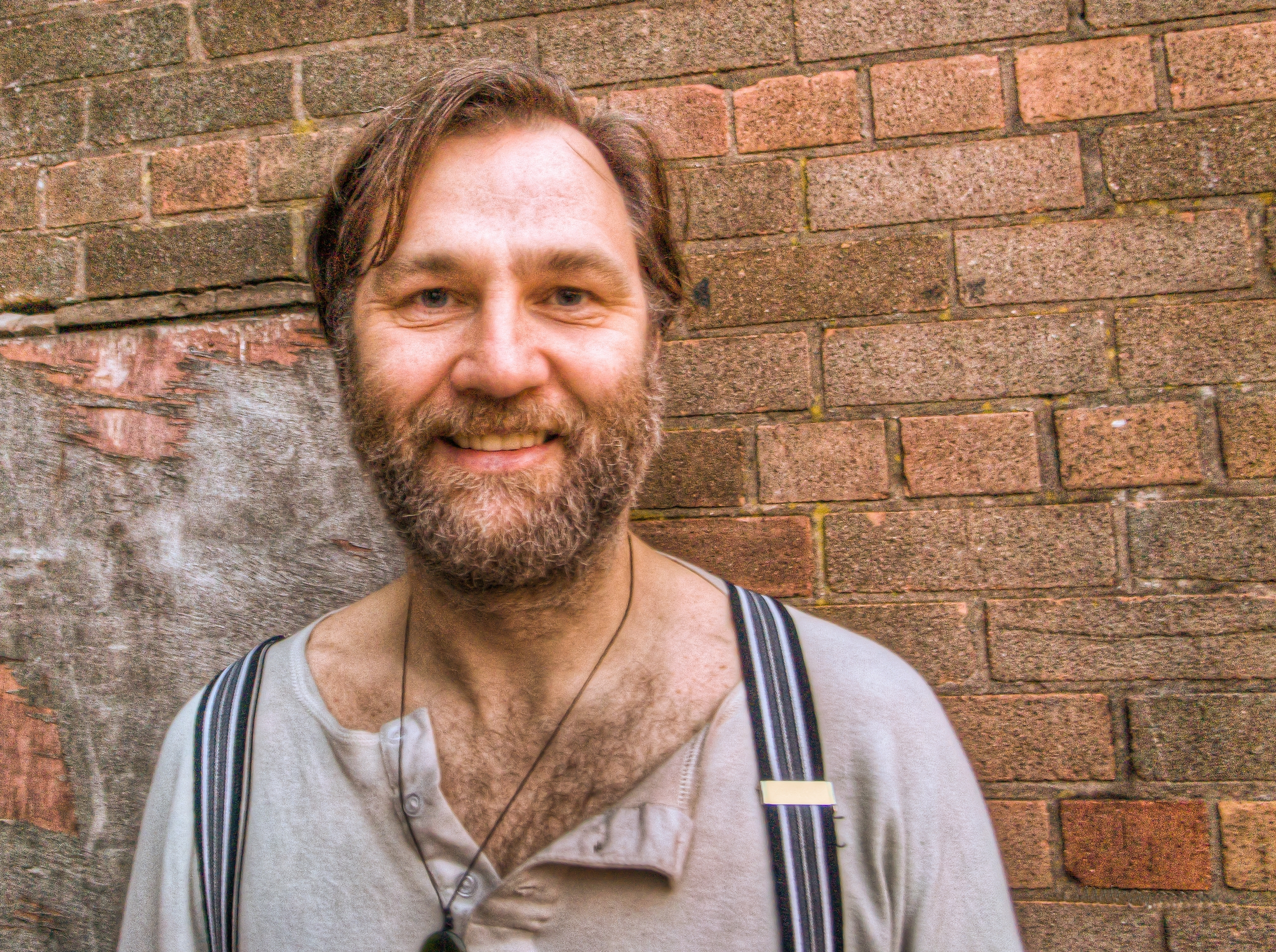 David Morrissey taking a break outside the Everyman.